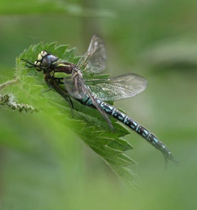 Hairy Dragonfly, Brachytron pratense. Roxton, Bedfordshire, United Kingdom